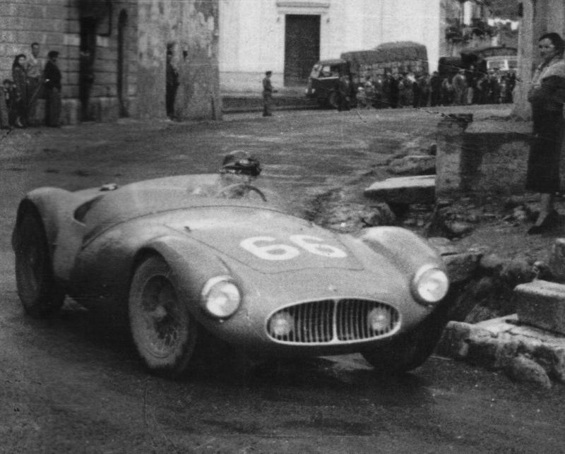 Entry #66 (and 3rd place) in the Targa Florio on Sicily on 14 May 1953 was Sergio Mantovani in this 1953 Maserati A6GCS Fantuzzi s/n 2042.[1]